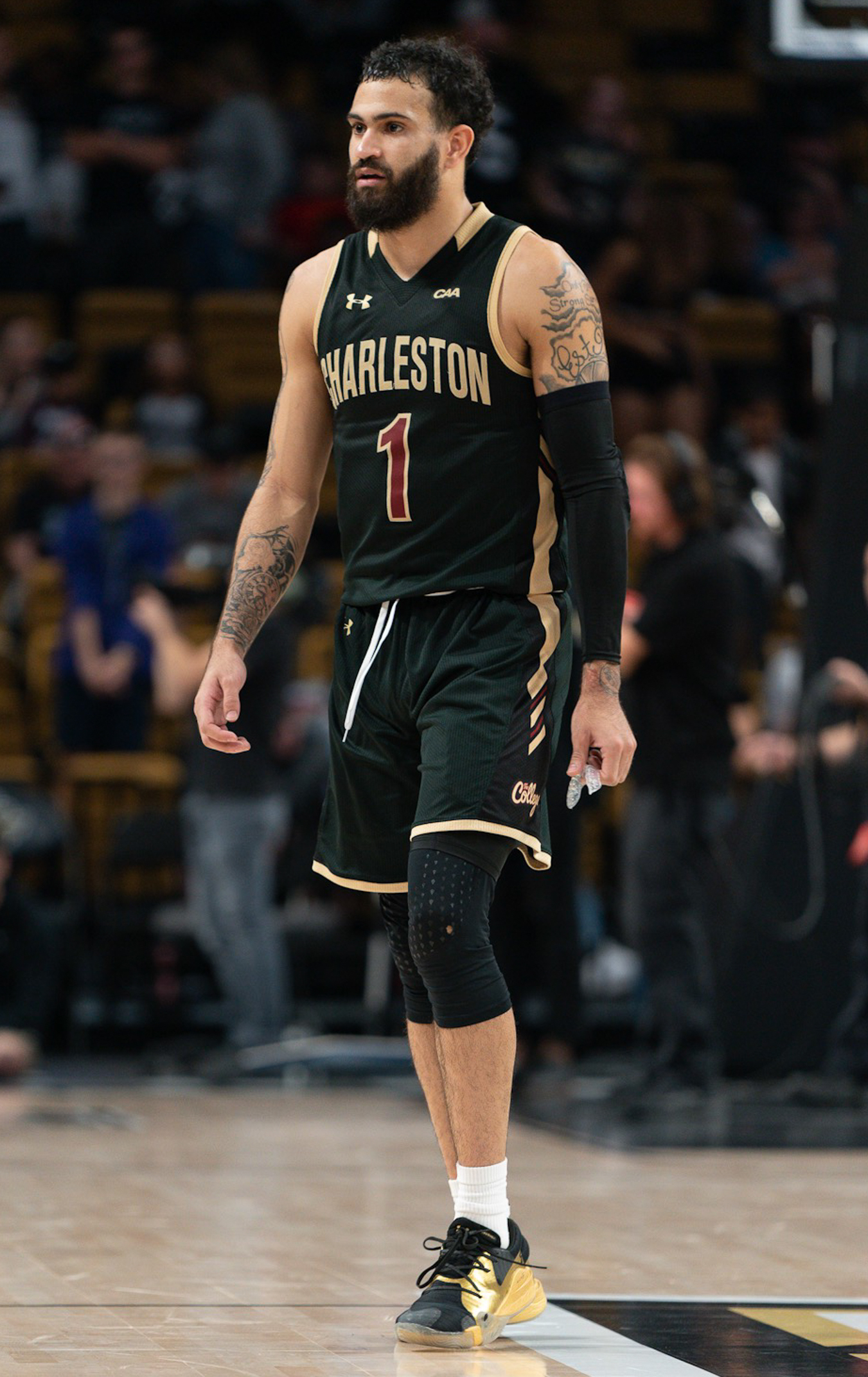 College Basketball returned to Addition Financial Arena on aturday as the College of Charleston Cougars were in town to take on the University of Central Florida Knights and Wright Smith was in Orlando Florida with My4oh7 as the UCF Knights held on to win 72-71. Stay #active with LockedIN Magazine